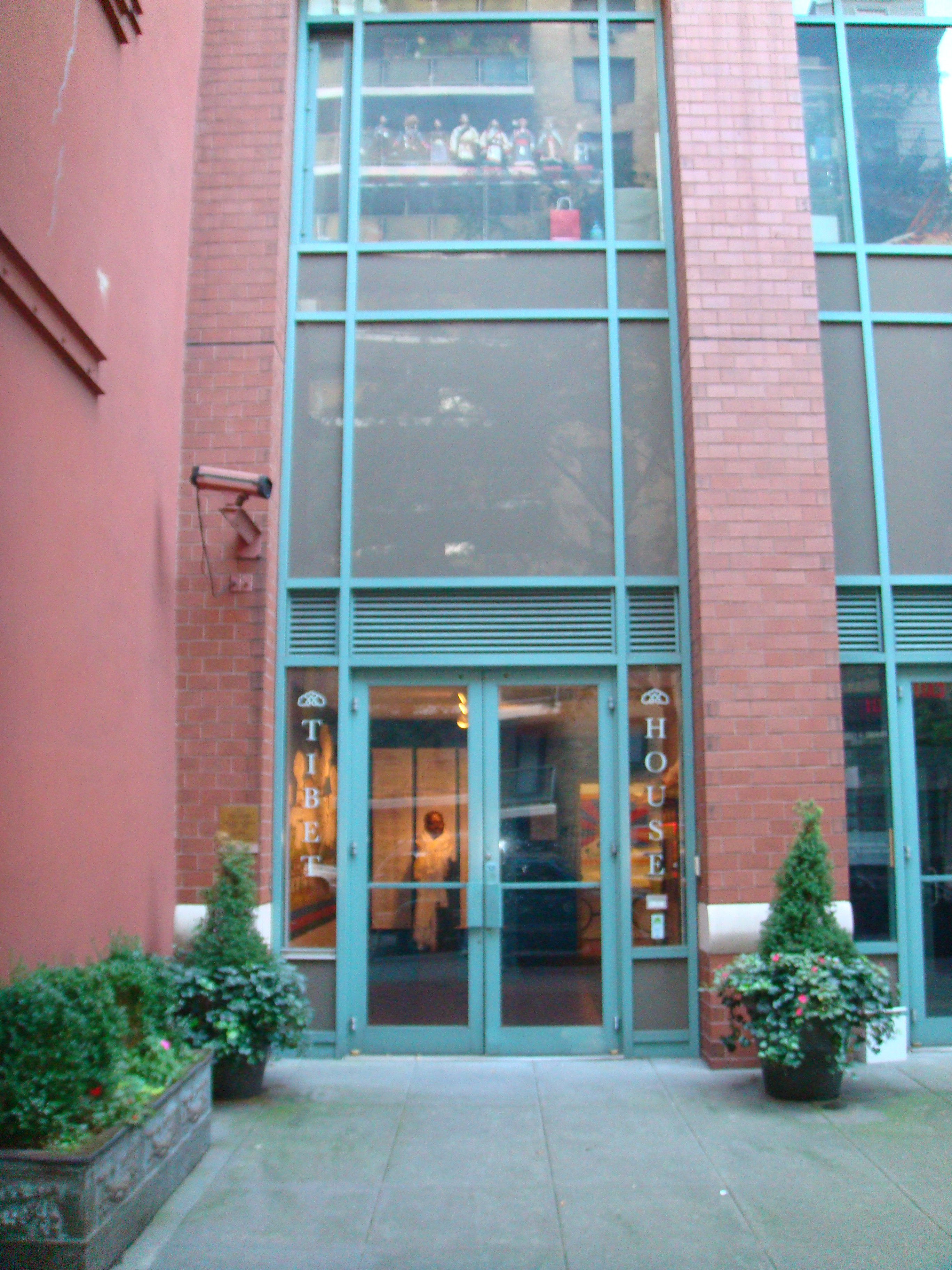 This photo is of Wikis Take Manhattan goal code E5, Tibet House.